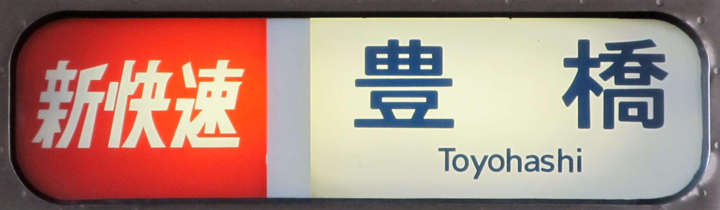 Rollsign of Central Japan Railway Series 313. New Rapid bound for Toyohashi.